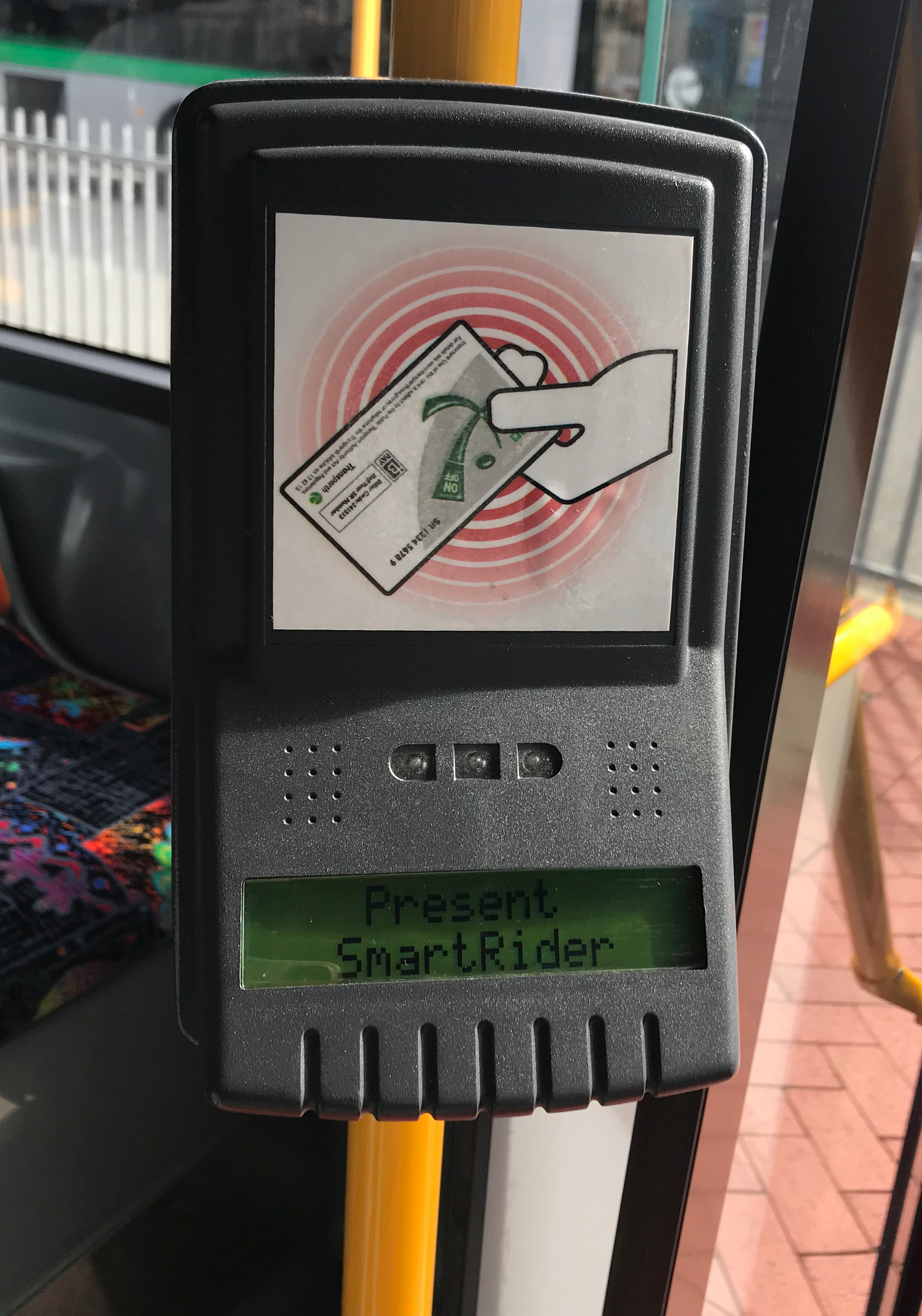 Smartrider card reader. These are on every Transperth vehicle, such as buses and ships.